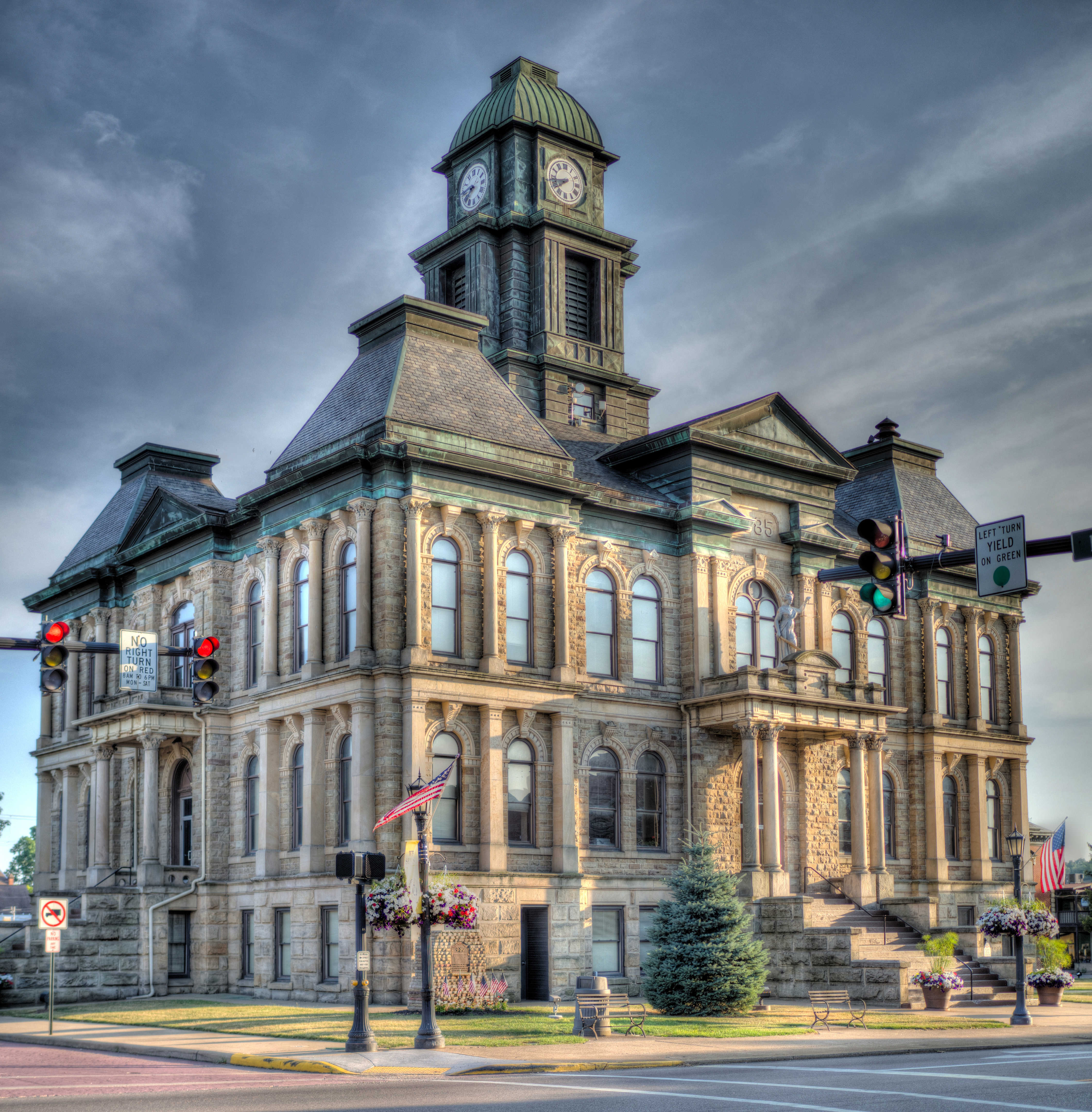 Holmes County Ohio, Court House